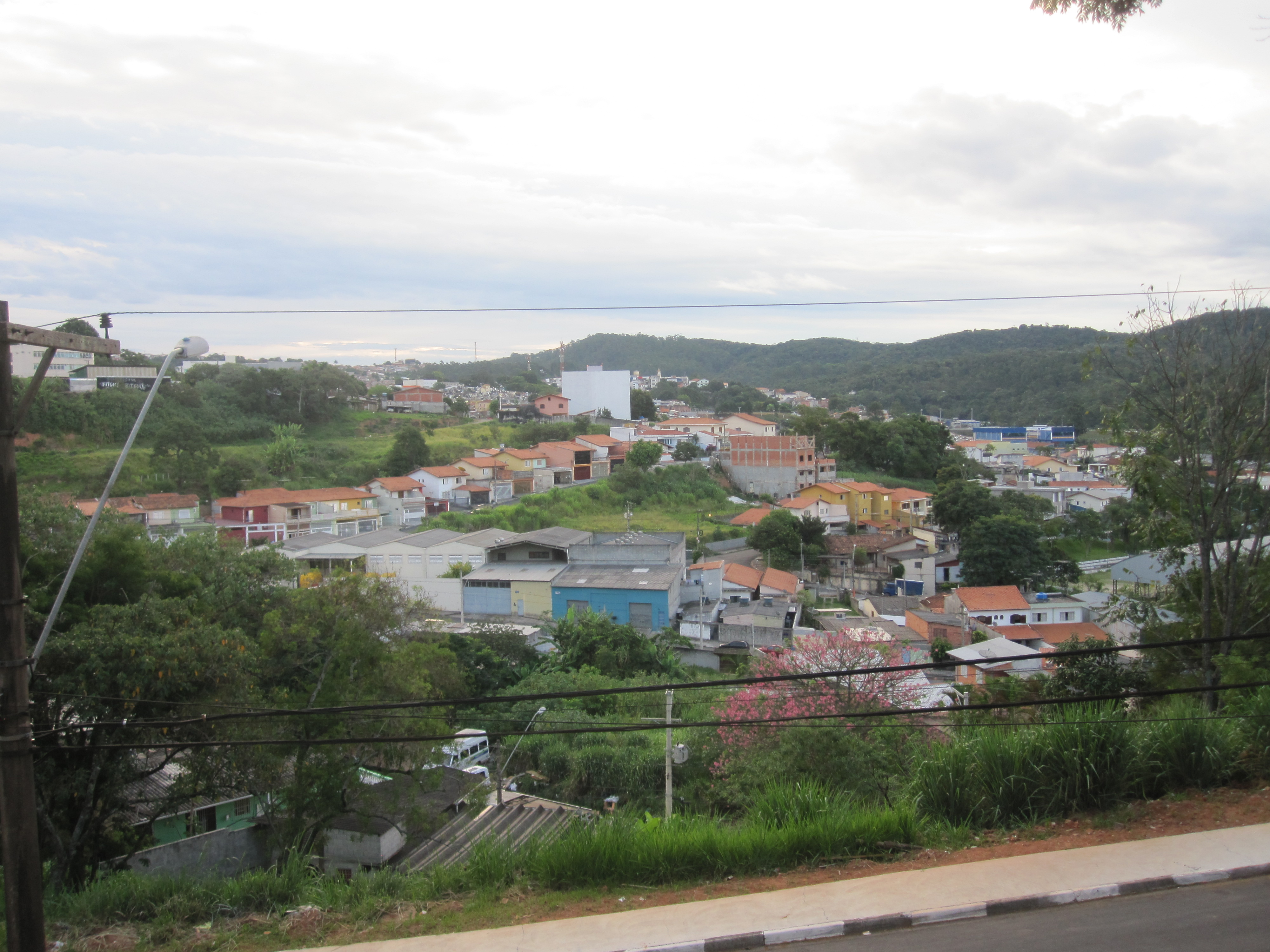 A view of downtown Cotia, São Paulo, Brazil.